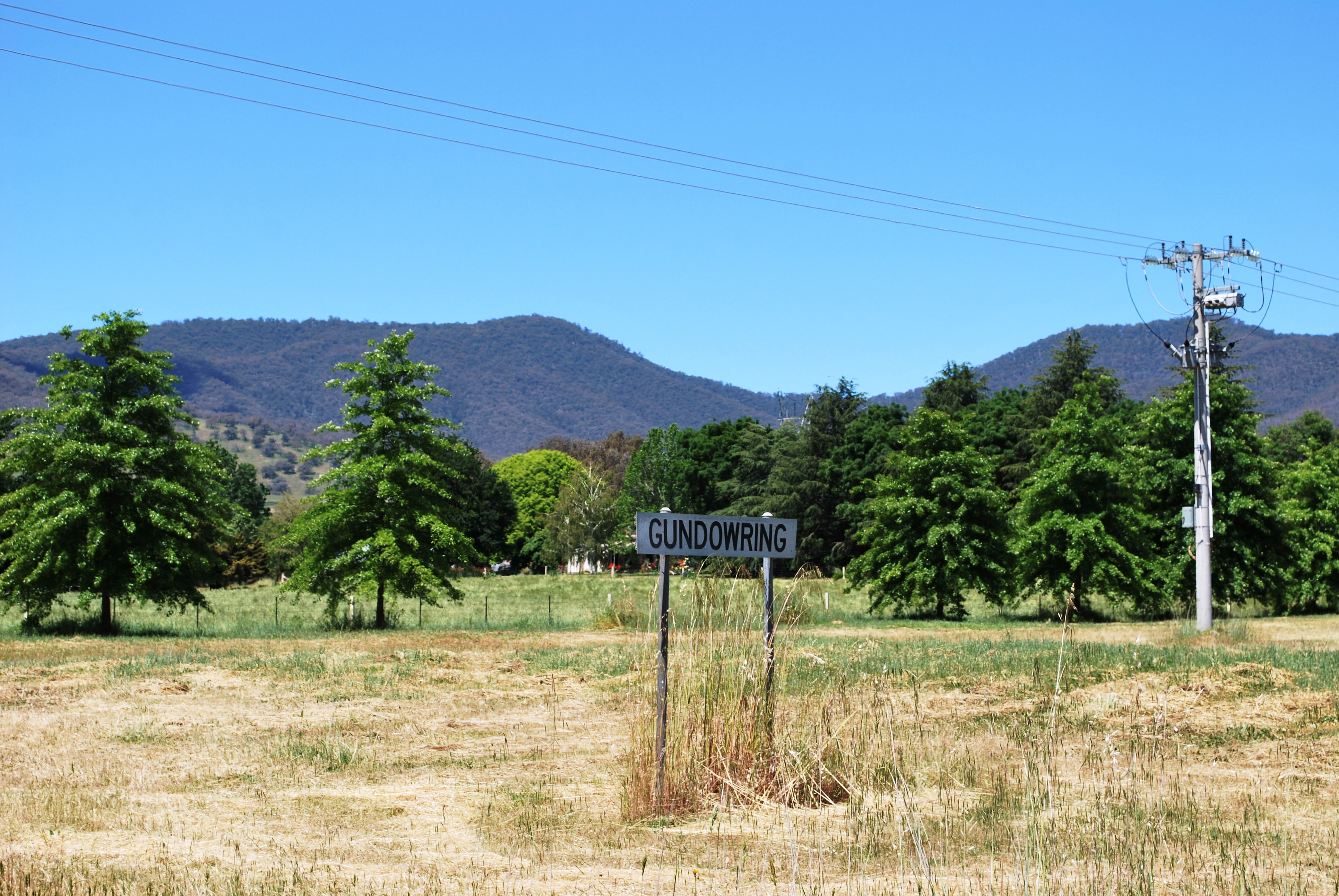 Town entry sign at Gundowring, Victoria